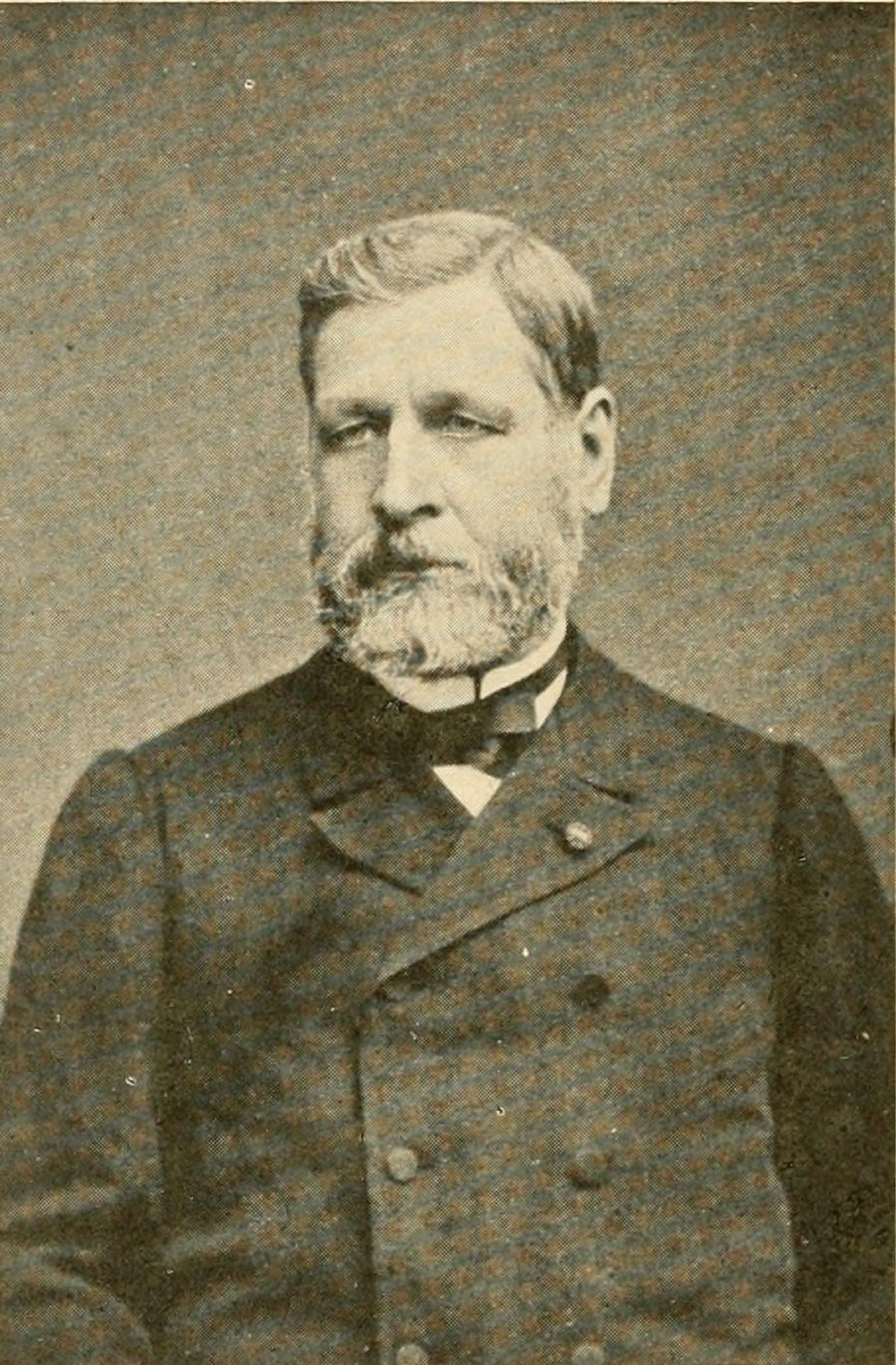 Image of Dr. Pierre Jules Tosquinet (1824-1902), former president of the Entomological Society of Belgium (Société Entomologique de Belgique) and recipient of the Order of Leopold (Belgium). Image was published in the society's journal, vol 10, which was an issue in his honor.